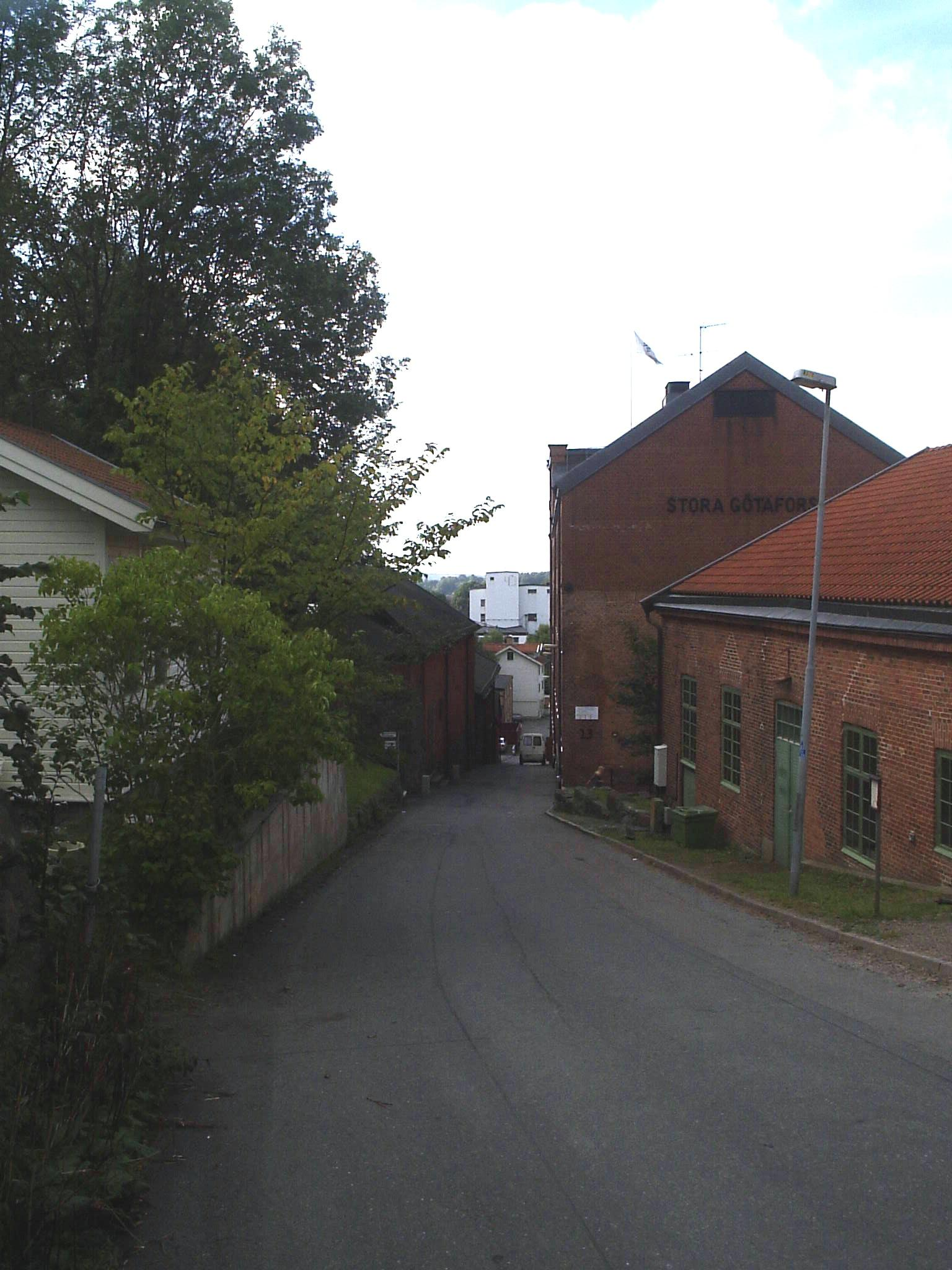 Photo by Harri Blomberg.